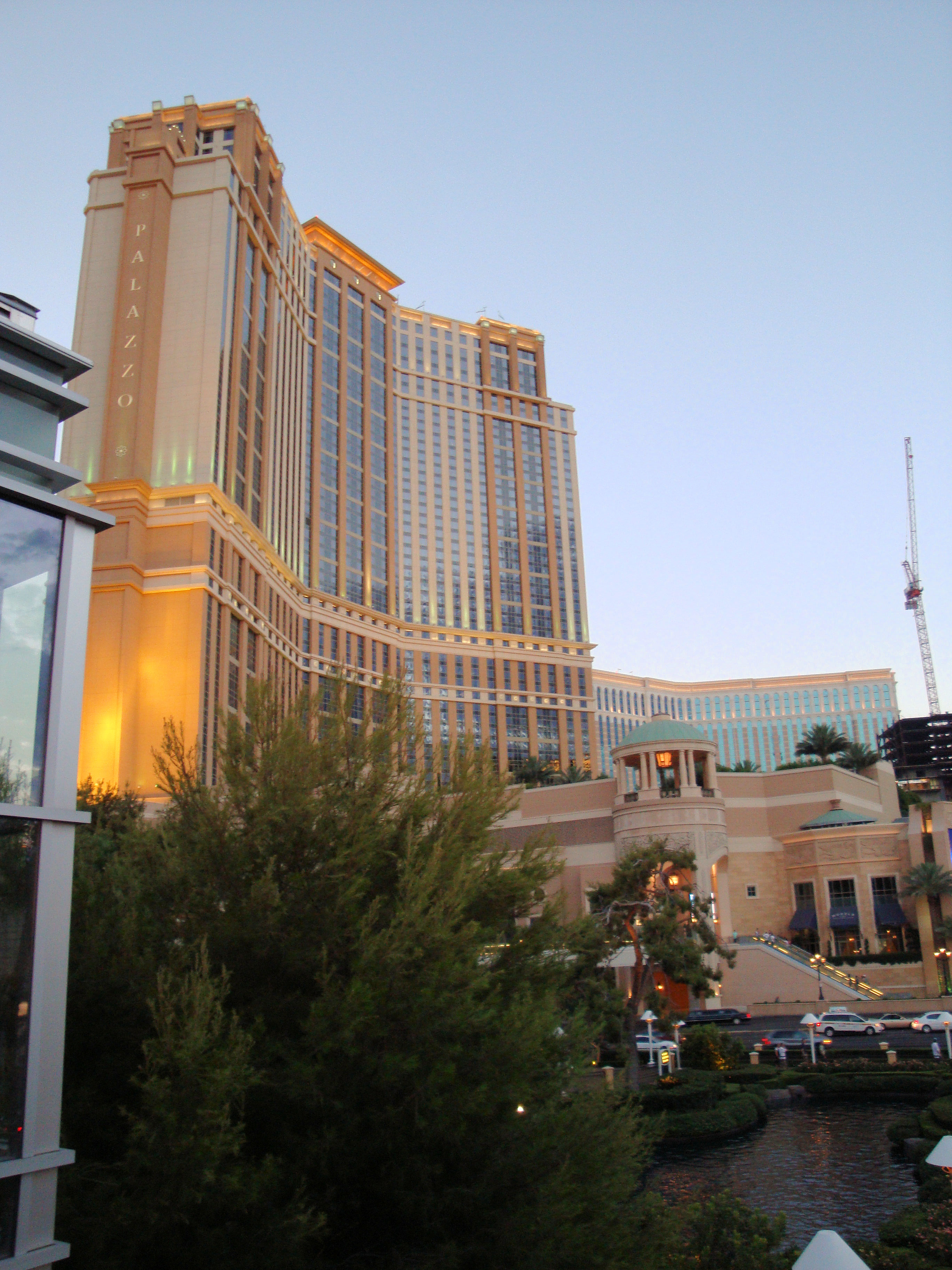 As anyone who’s been fortunate enough to visit the Italian countryside and seaports knows, the country is famous for its hospitality and a divine range of diversions. The Palazzo was created with precisely that in mind. The beauty of Capri. The luxurious serenity of Portofino. The couture of Milan. The culinary greatness of Tuscany. The graciousness of the people. Here, it all comes together to fashion the epitome of a lifestyle of luxury.